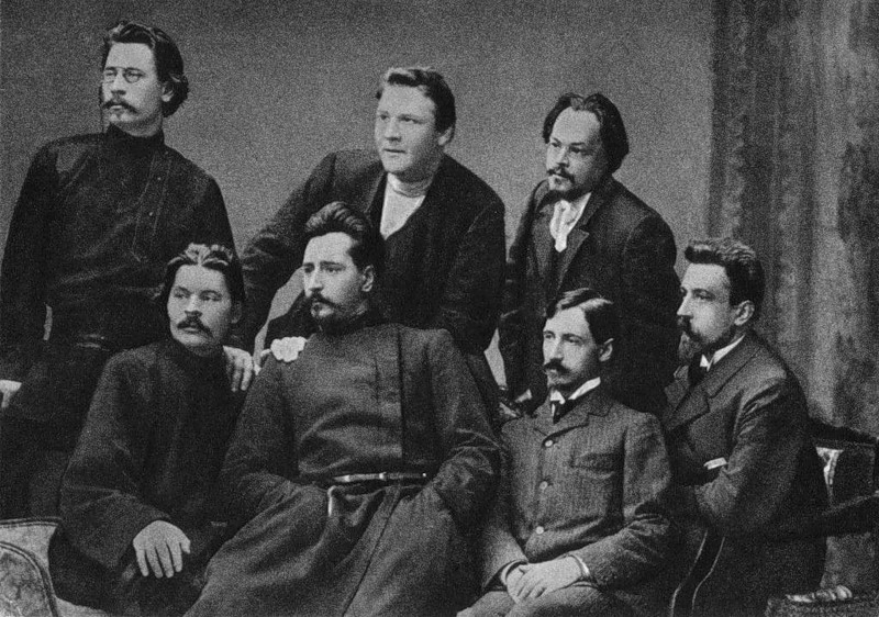 Members of the Moscow literary group Sreda: Top row from left: Stepan Skitalets, Fyodor Chaliapin, Yevgeny Chirikov; bottom row from left: Maxim Gorky, Leonid Andreyev, Ivan Bunin, Nikolay Teleshov.